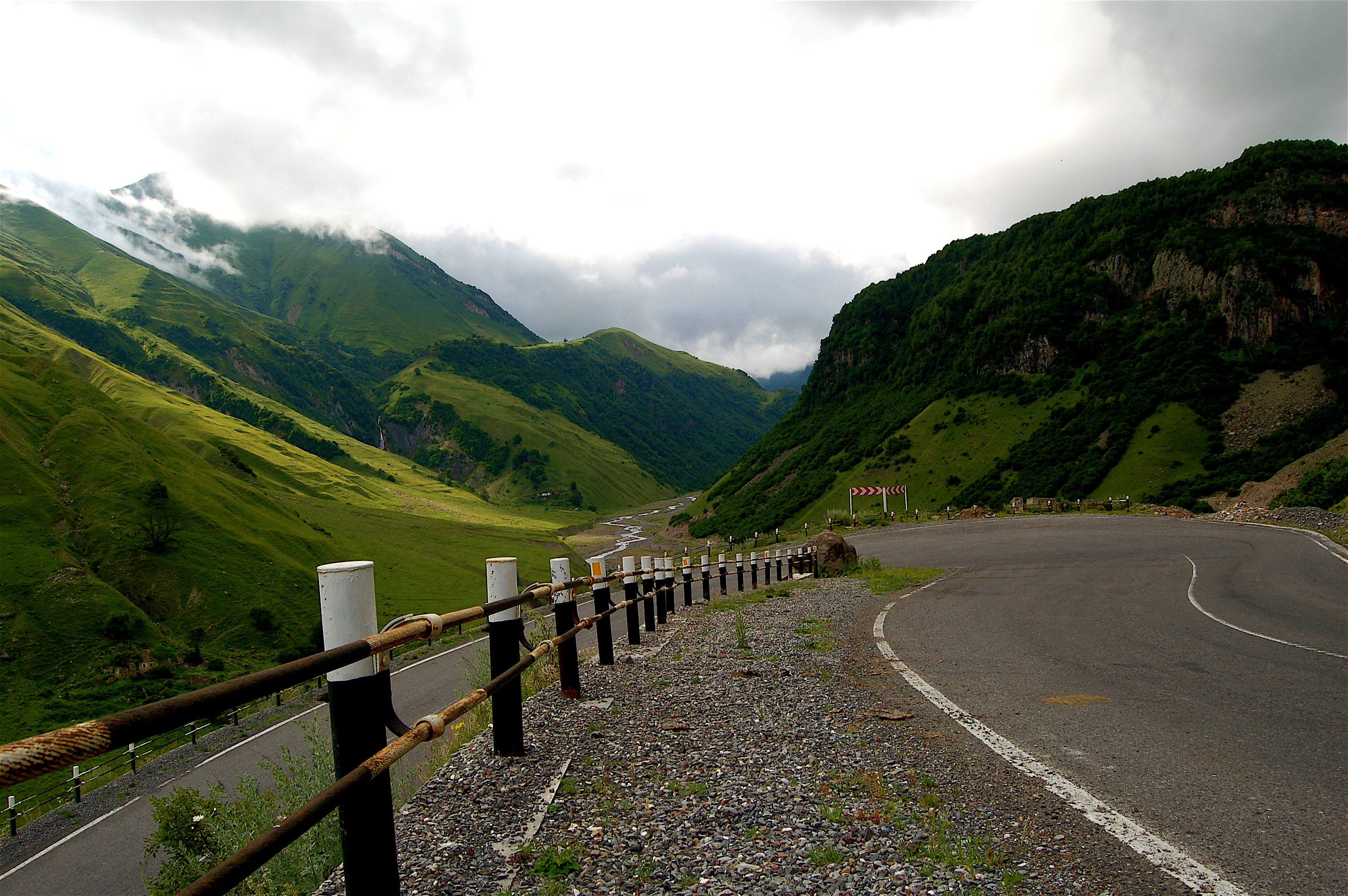 Curves, pretty much like Western Norway. On our merry way to Kazbegi in the central Caucasus.